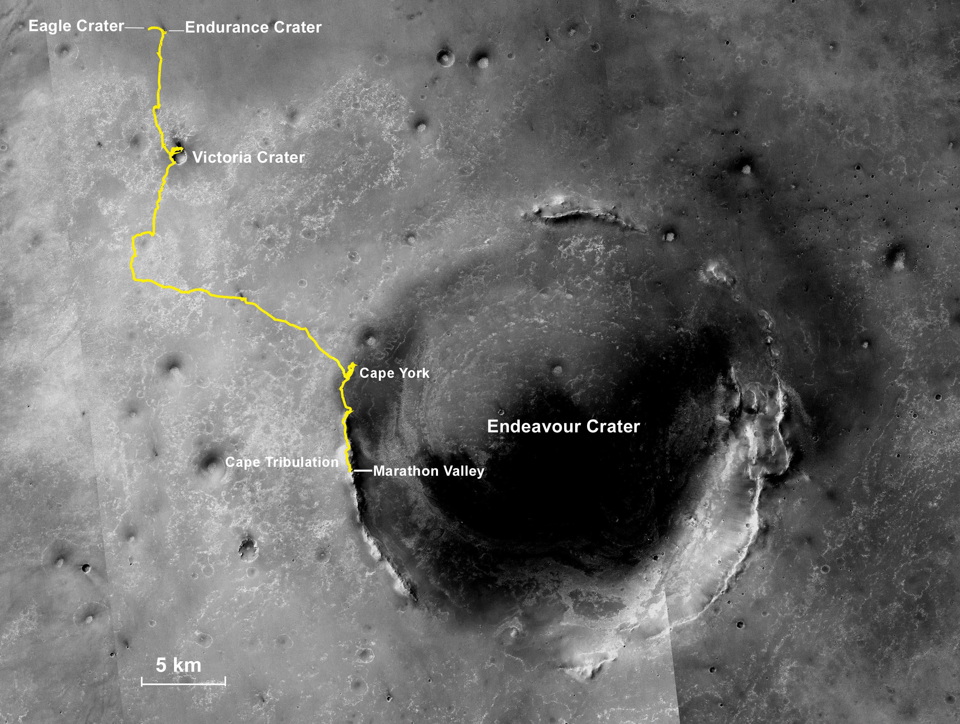 NASA's Mars Exploration Rover Opportunity, working on Mars since January 2004, passed marathon distance in total driving on March 24, 2015, during the mission's 3,968th Martian day, or sol. A drive of 153 feet (46.5 meters) on Sol 3968 brought Opportunity's total odometry to 26.221 miles (42.198 kilometers).